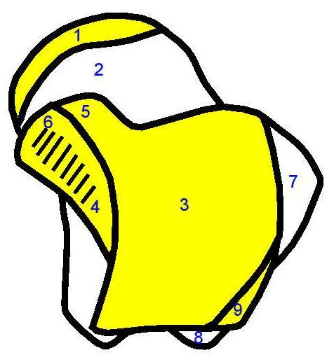 Forward extensions of the lateral malleolar facet and of the trochlear surface of the talus